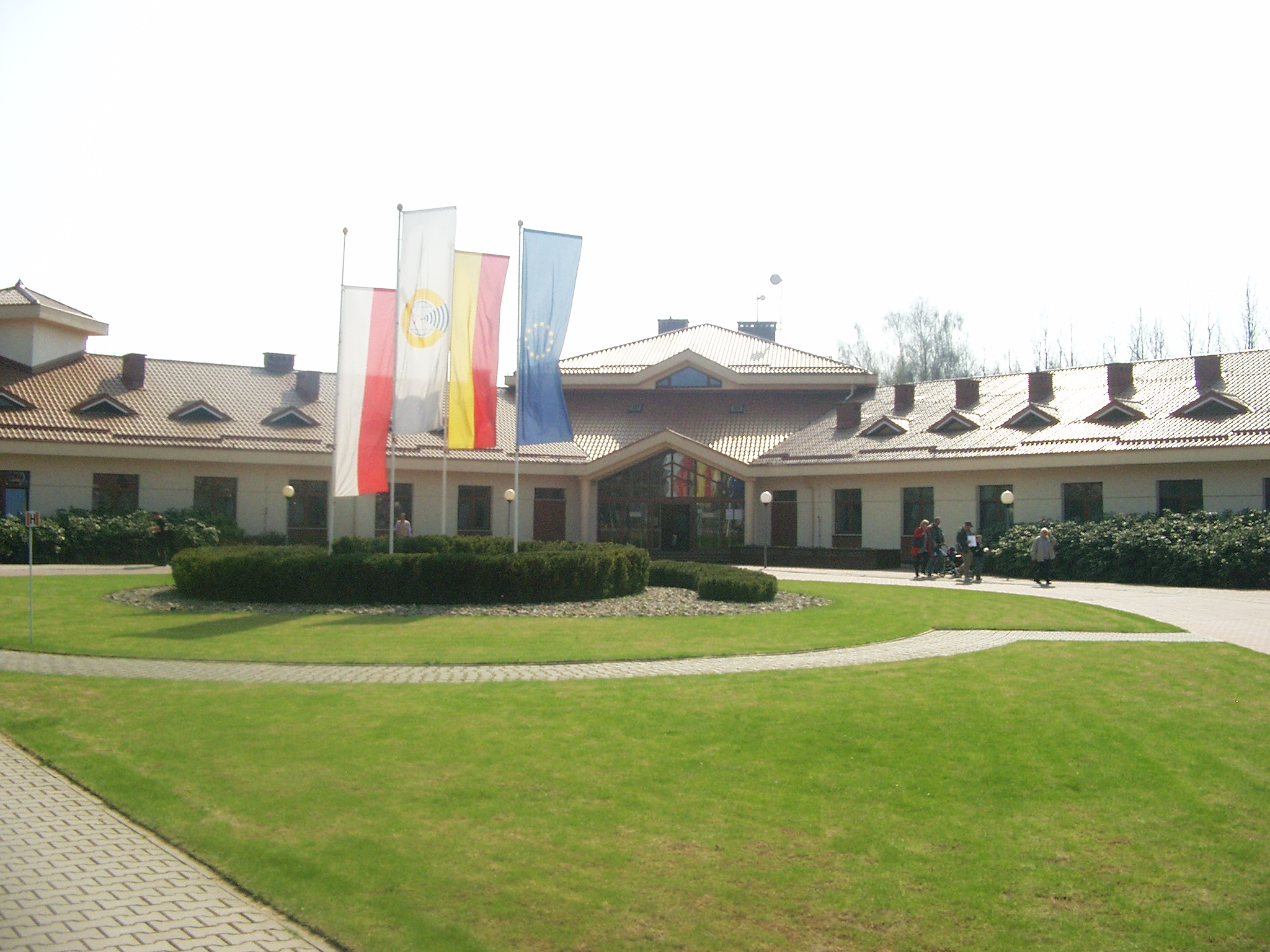 International Center of Hearing and Speech